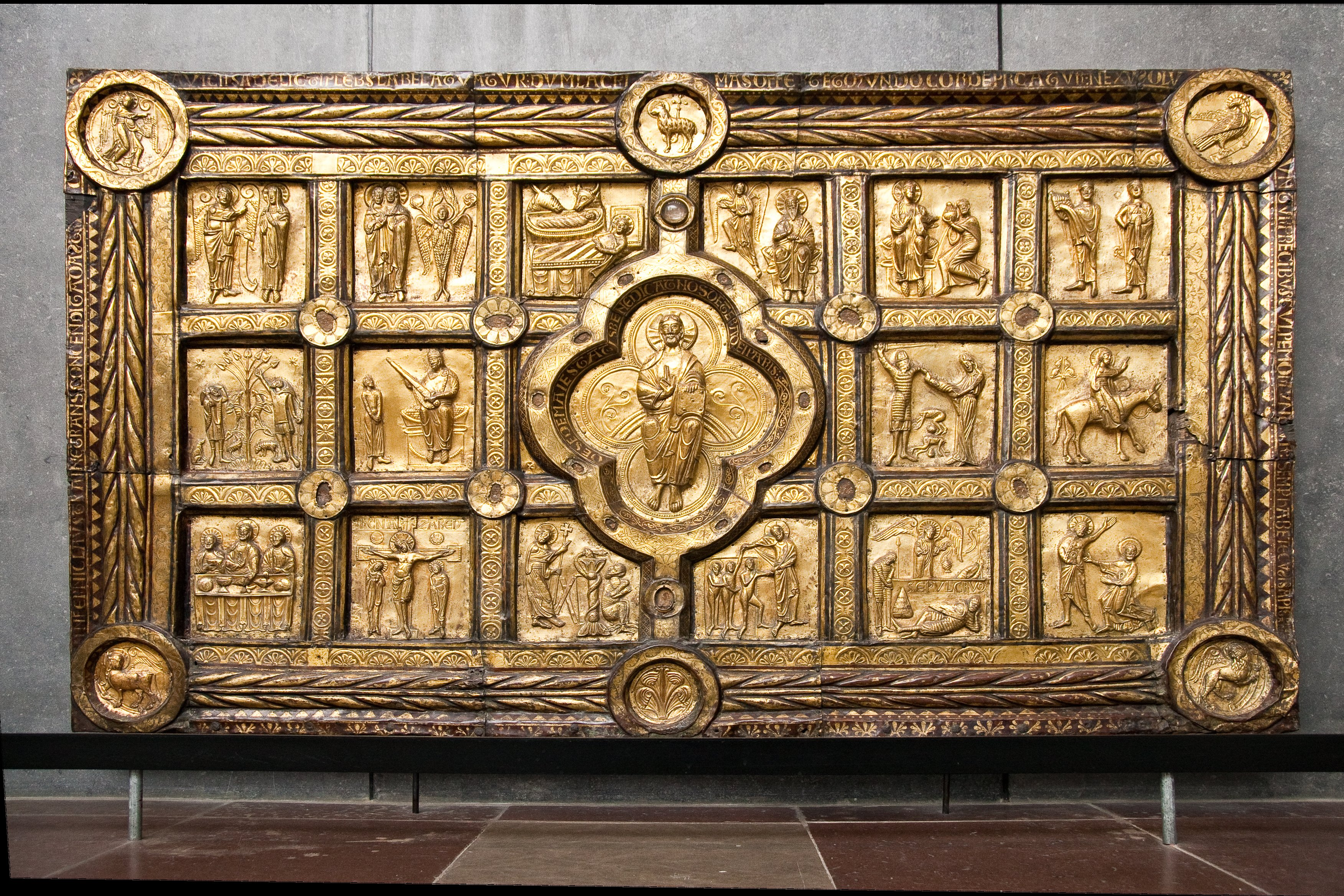 1A frontal from an altar from Ølst Church near Randers, Denmark. Dates from ca. 1200-1225. Displayed at the National Museum in Copenhage , Denmark